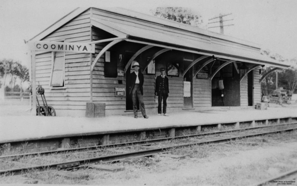 Creator: Unidentified Location: Coominya, Queensland Description: Railway Station and Telegraph Office at Coominya near Esk. The timber framed weatherboard construction has a small awning covering the platform. Railway workers are standing by. View this image at the State Library of Queensland: Information about State Library of Queensland’s collection